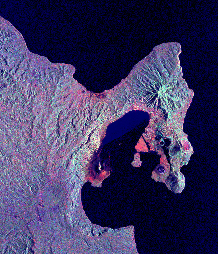 Space Radar Image of Rabaul Volcano, New Guinea Credit NASA JPL This is a radar image of the Rabaul volcano on the island of New Britain, Papua New Guinea taken almost a month after its September 19, 1994, eruption that killed five people and covered the town of Rabaul and nearby villages with up to 75 centimeters (30 inches) of ash. More than 53,000 people have been displaced by the eruption. The image was acquired by the Spaceborne Imaging Radar-C/X-band Synthetic Aperture Radar (SIR-C/X-SAR) aboard the space shuttle Endeavour on its 173rd orbit on October 11, 1994. This image is centered at 4.2 degrees south latitude and 152.2 degrees east longitude in the southwest Pacific Ocean. The area shown is approximately 21 kilometers by 25 kilometers (13 miles by 15.5 miles). North is toward the upper right. The colors in this image were obtained using the following radar channels: red represents the L-band (horizontally transmitted and received); green represents the L-band (horizontally transmitted and vertically received); blue represents the C-band (horizontally transmitted and vertically received).